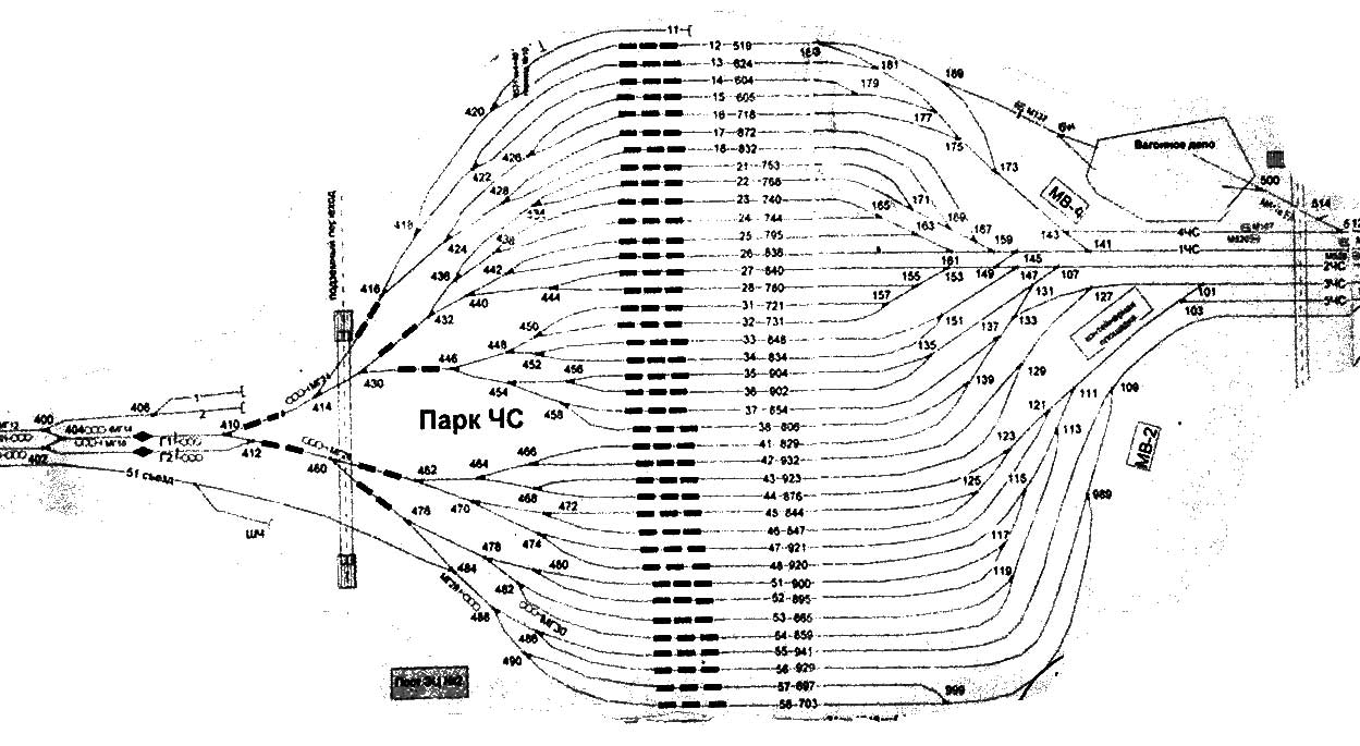 Scheme of sorting yard